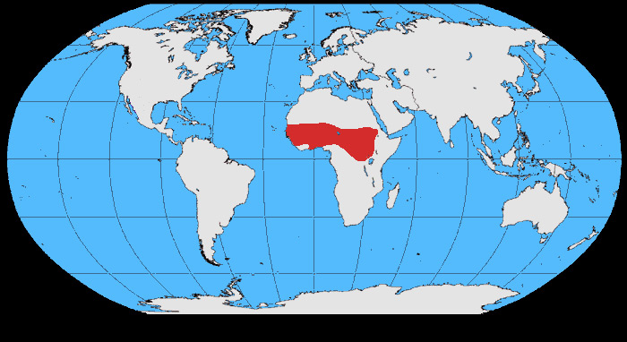 Global range of Ptilostomus afer.